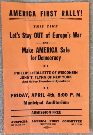 A flyer for an America First rally, to be held April 4, 1941, at Municipal Auditorium in St. Louis, Missouri. The flyer is put out by the America First Committee and says that former Governor of Wisconsin Philip La Follette and journalist John T. Flynn will be among the speakers. America First was urging that the United States not intervene in World War II in Europe.